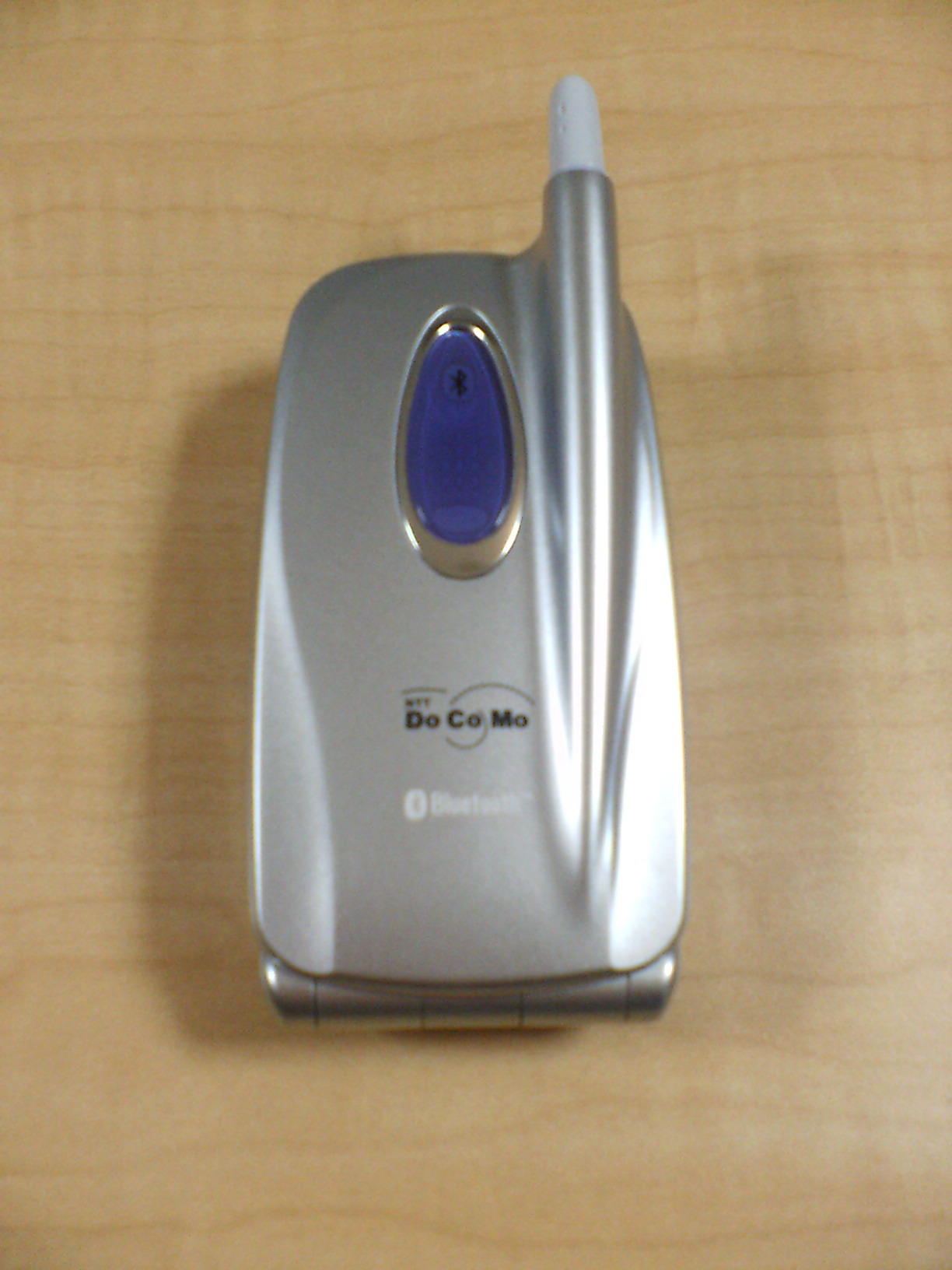 NTT DoCoMo/Sharp 633S PHS mobile phone